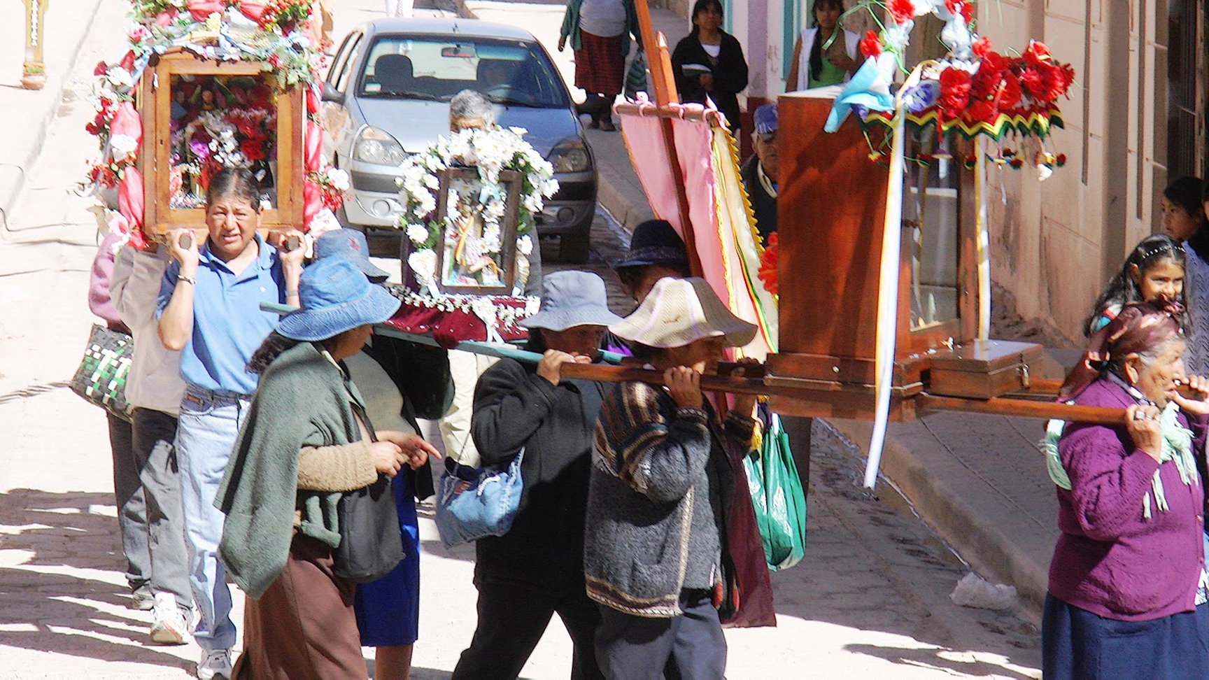 "Misachico" in the Argentine Northwest